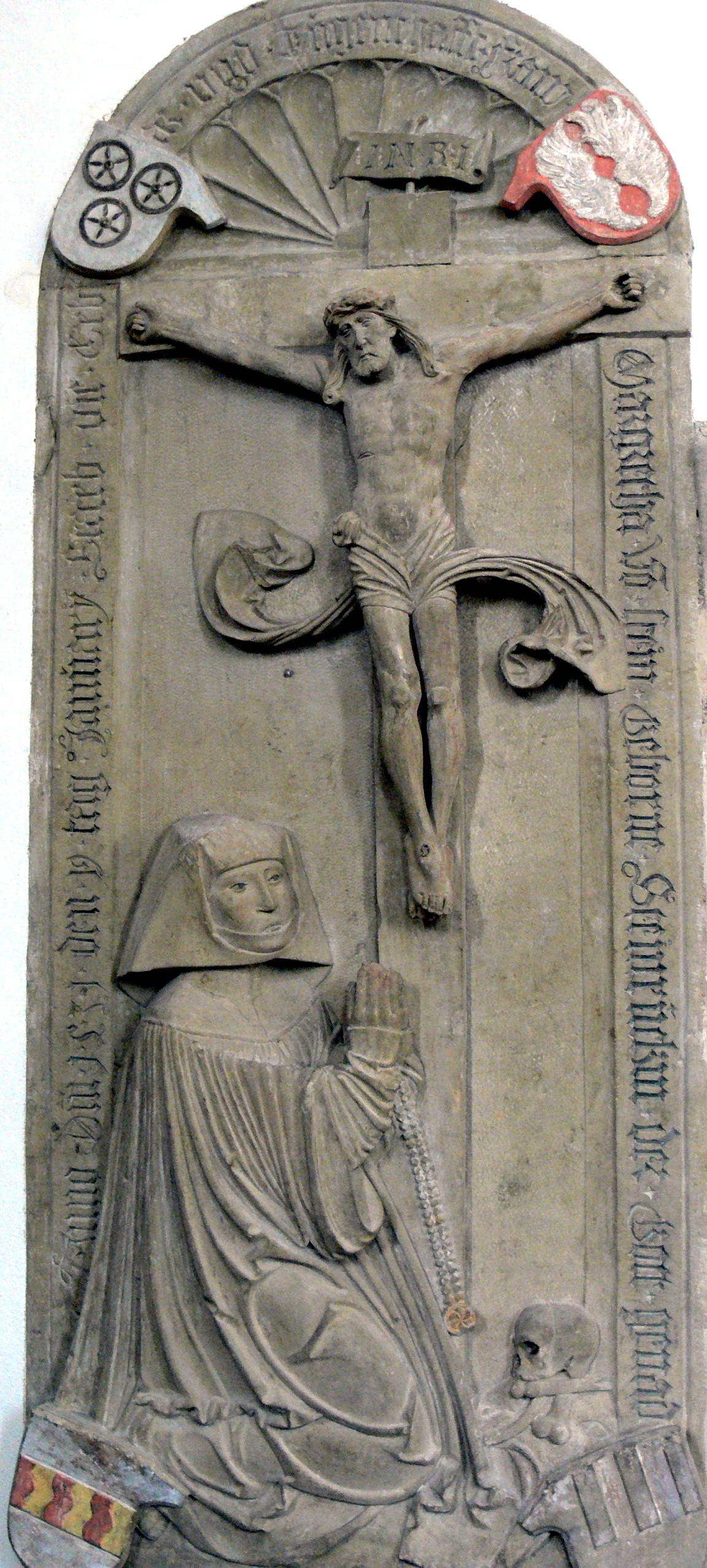 Haßfurt ( Lower Franconia ). Knights chapel: Epitaph for Margaretha of Stein ( + 1531 ) by Jörg Riemenschneider.